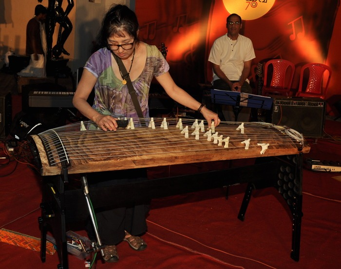 Miya Masaoka (born Washington, D.C., 1958) is an American musician and composer who performs on the 17-string Japanese koto zither, performing at Kollam Jan 2012